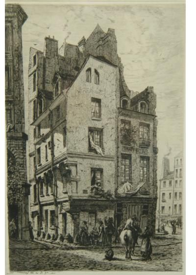 Alfred Alexandre Delauney. Two Parisian Street